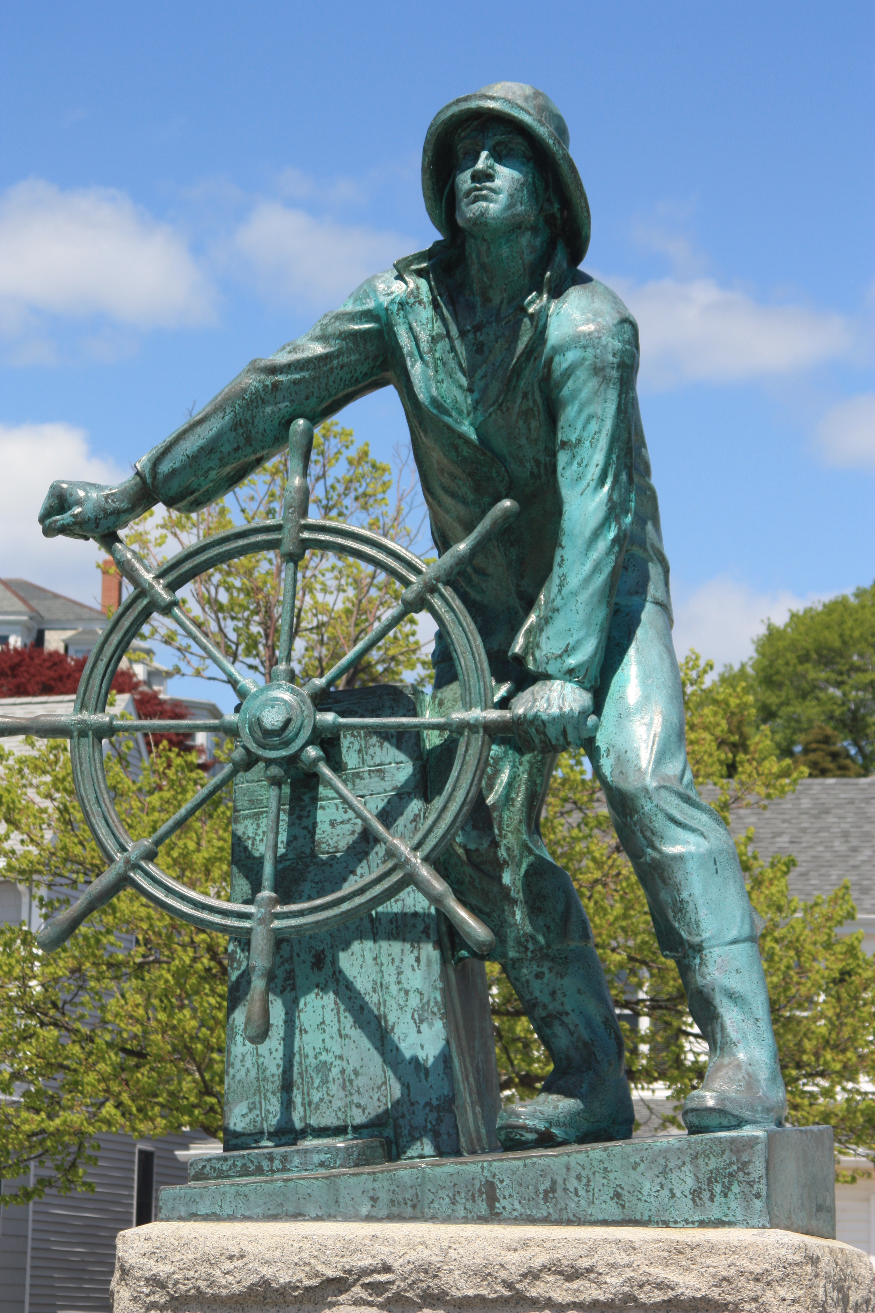 The Fishermen’s Memorial is located on the Stacy Boulevard Esplanade in Gloucester, MA. The Fishermen’s Memorial, also known as “The Man At The Wheel,” was commissioned as part of the celebration of Gloucester’s 300th anniversary in 1923. The base of the statue was placed at the site that year, but the actual statue was not unveiled until 1925. The statue is a tribute to the 10,000 Gloucester fishermen who have lost their lives at sea over the centuries.